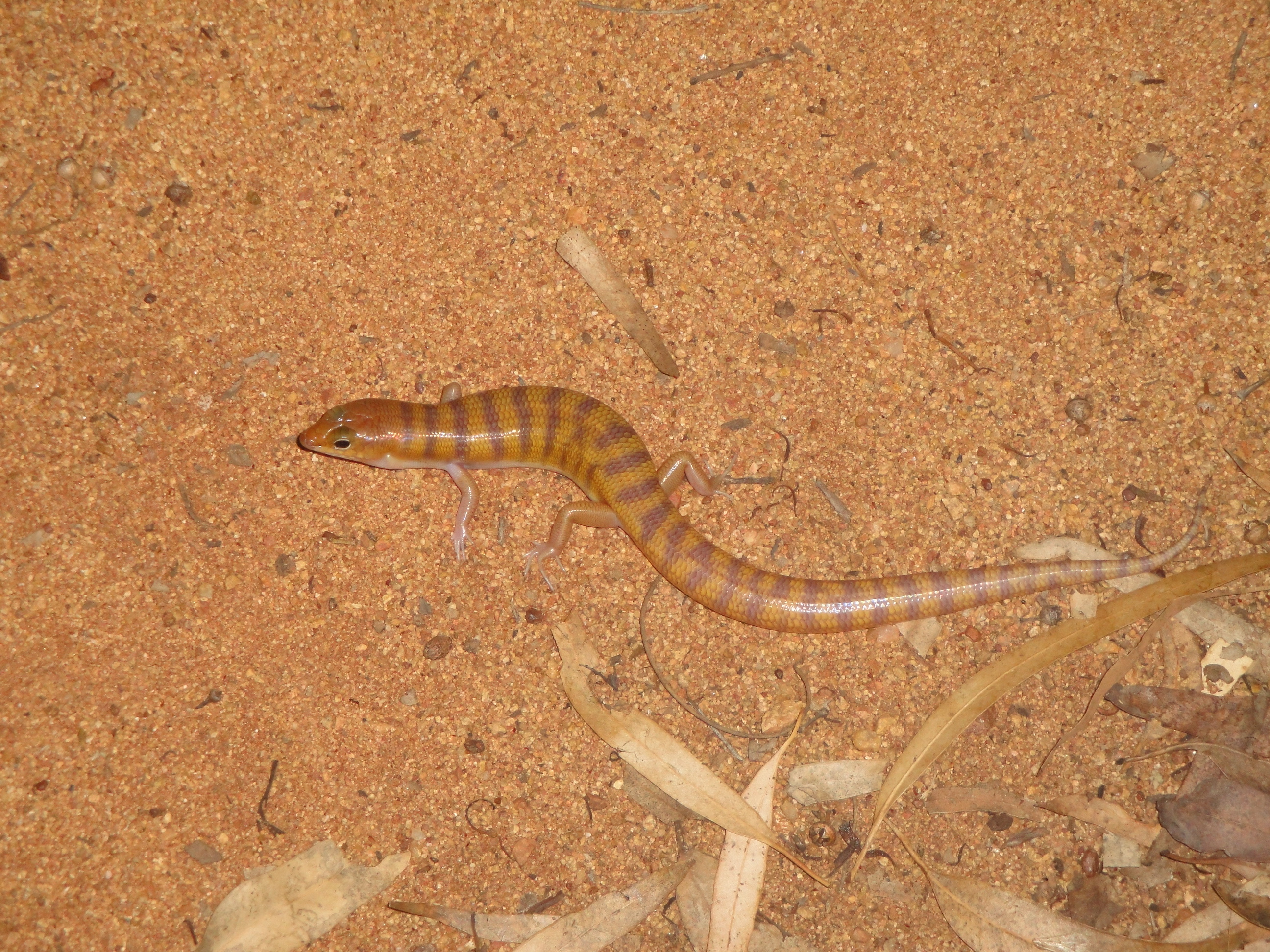 Broad-banded Sand-swimmer (Eremiascincus richardsonii) at Plutonic Gold Mine, Western Australia